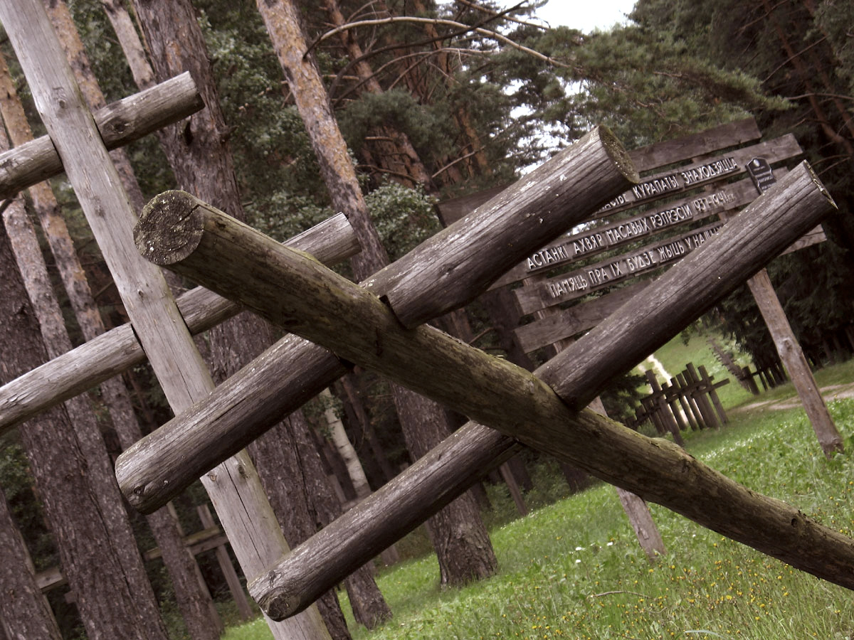 Kurapaty near Minsk is the place where mass executions of Belarusian civilians were carried out during the Stalin regime (1937 - 1941) Беларуская (тарашкевіца): Урочышча Курапаты пад Менскам — месца масавых расстрэлаў і пахаваньняў беларускіх цывільных асобаў, зьдзейсьненыя падчас сталінскіх рэпрэсіяў у 1937—1941 гадох